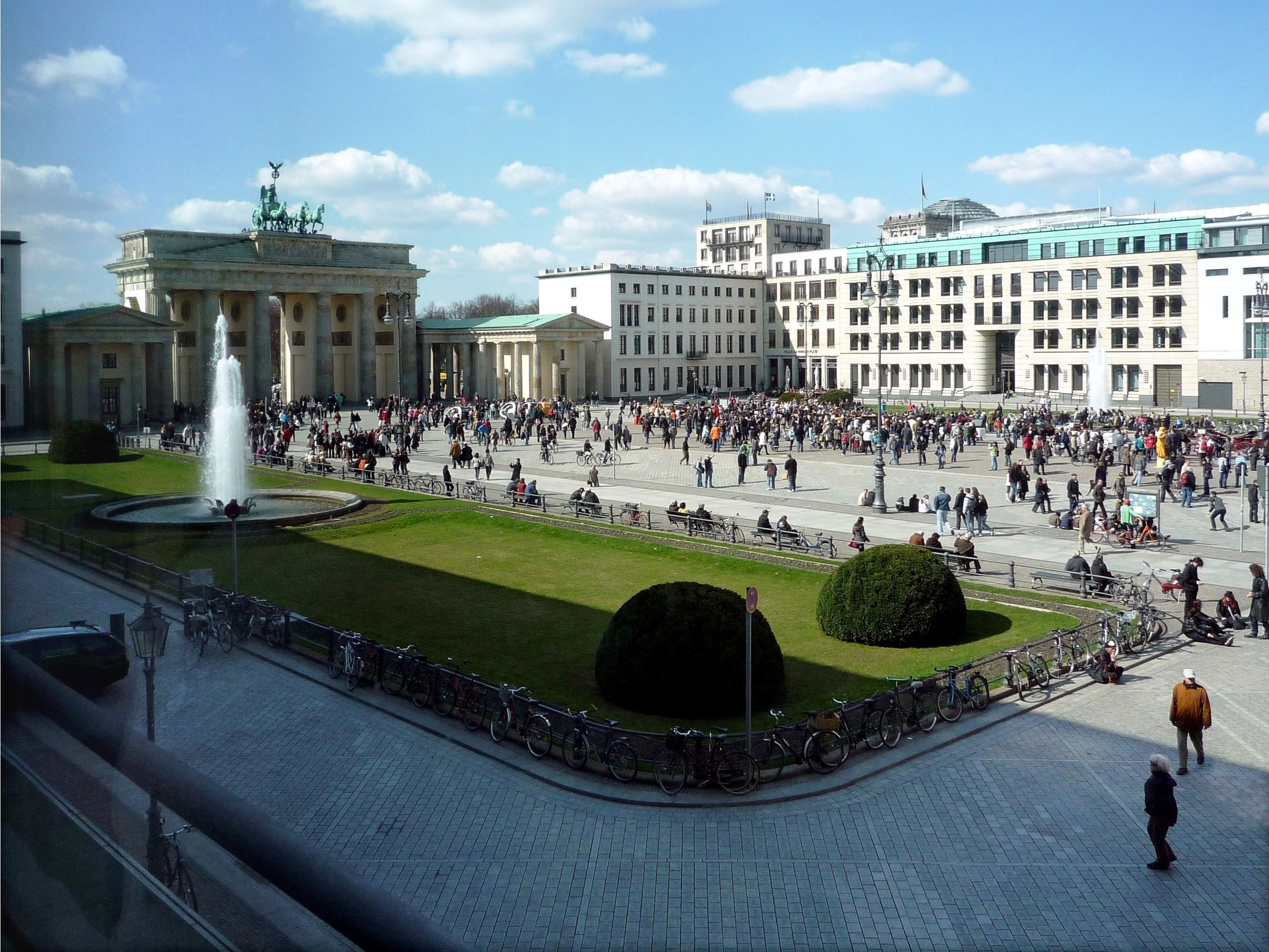 The "Pariser Platz" in Berlin with Brandenburg Gate (Brandenburger Tor).